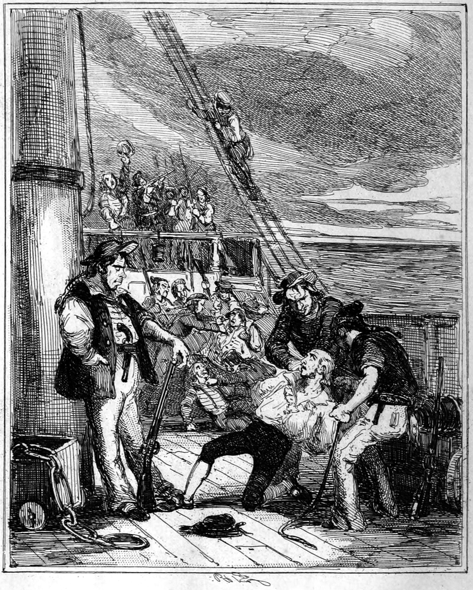 Depiction of the Mutiny on the Bounty